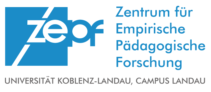 logo zepf